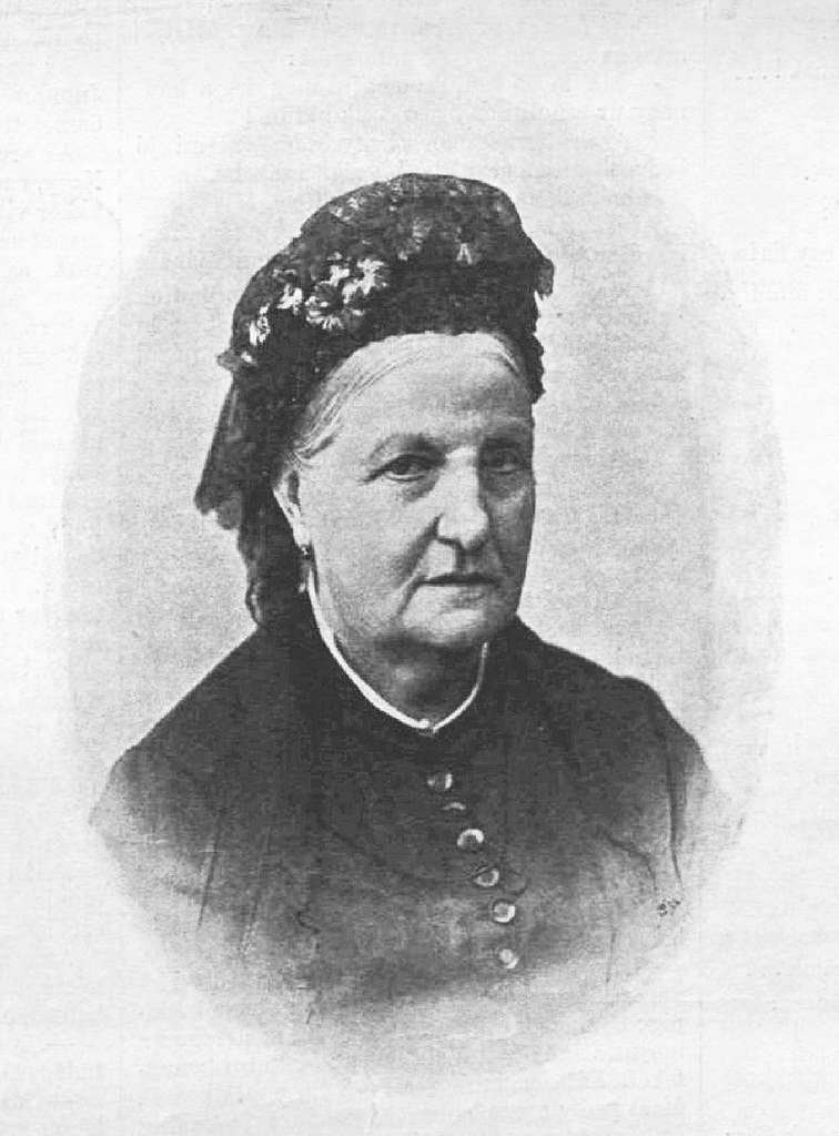 Princess Maria Antonia of Bourbon-Two Sicilies